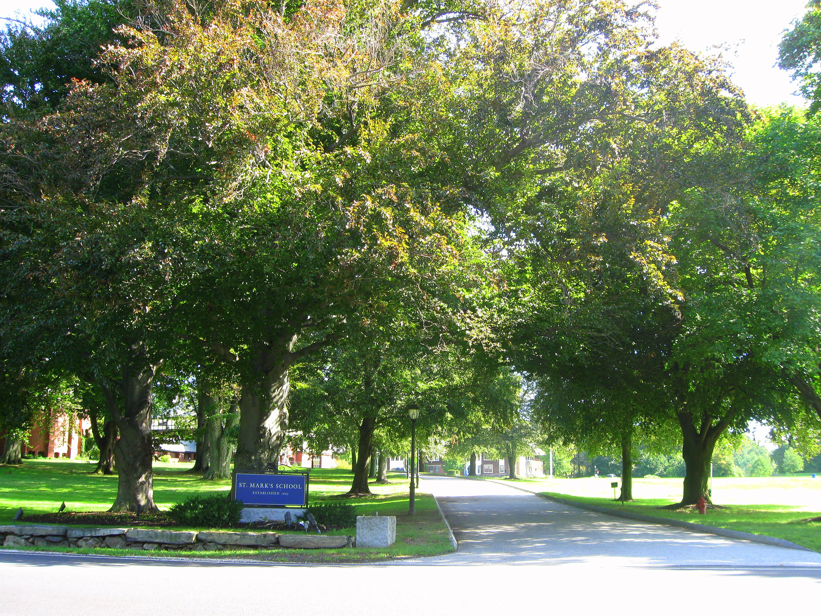 Entrance to St. Mark's School of Southborough